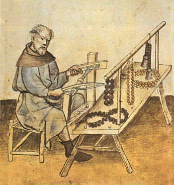 Patenotrier